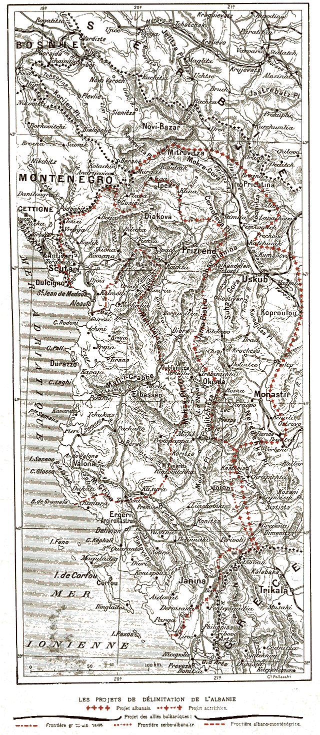 Various proposals for the borders of Albania during the First Balkan War